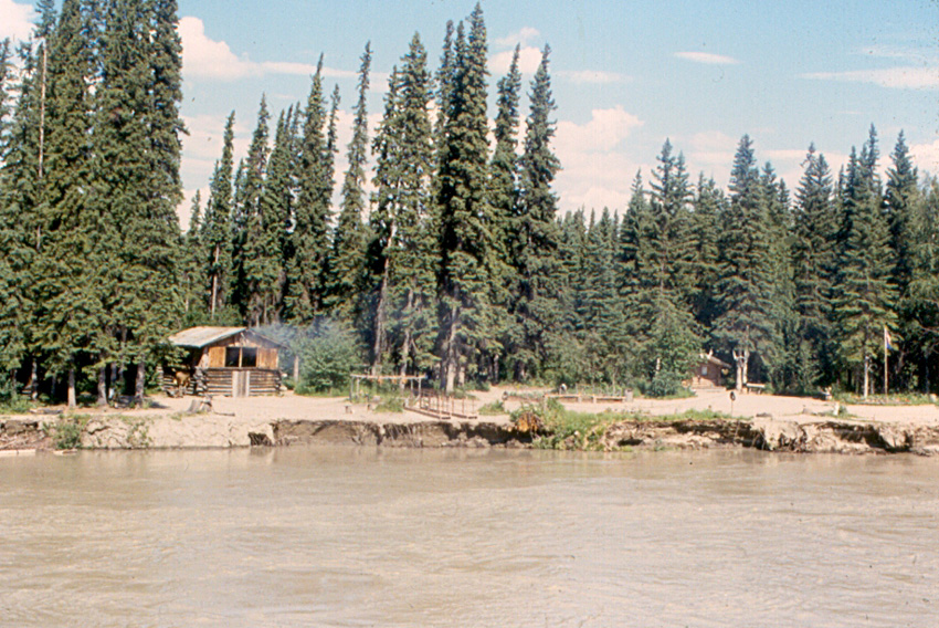 A Chena Indian village on the Tanana River. The Tanana River is fed by glaciers, and is full of silt.